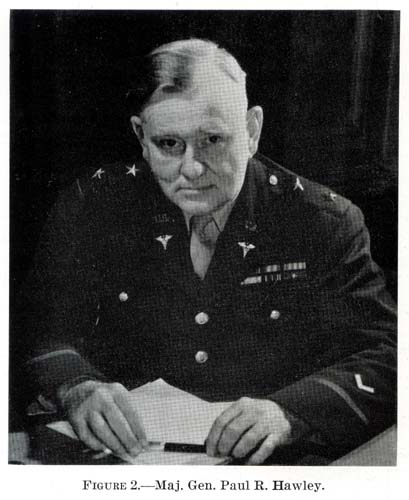 Major General Paul Ramsey Hawley, Medical Corps, United States Army. Hawley was the Chief Surgeon of the European Theater of Operations, United States Army, during World War II.